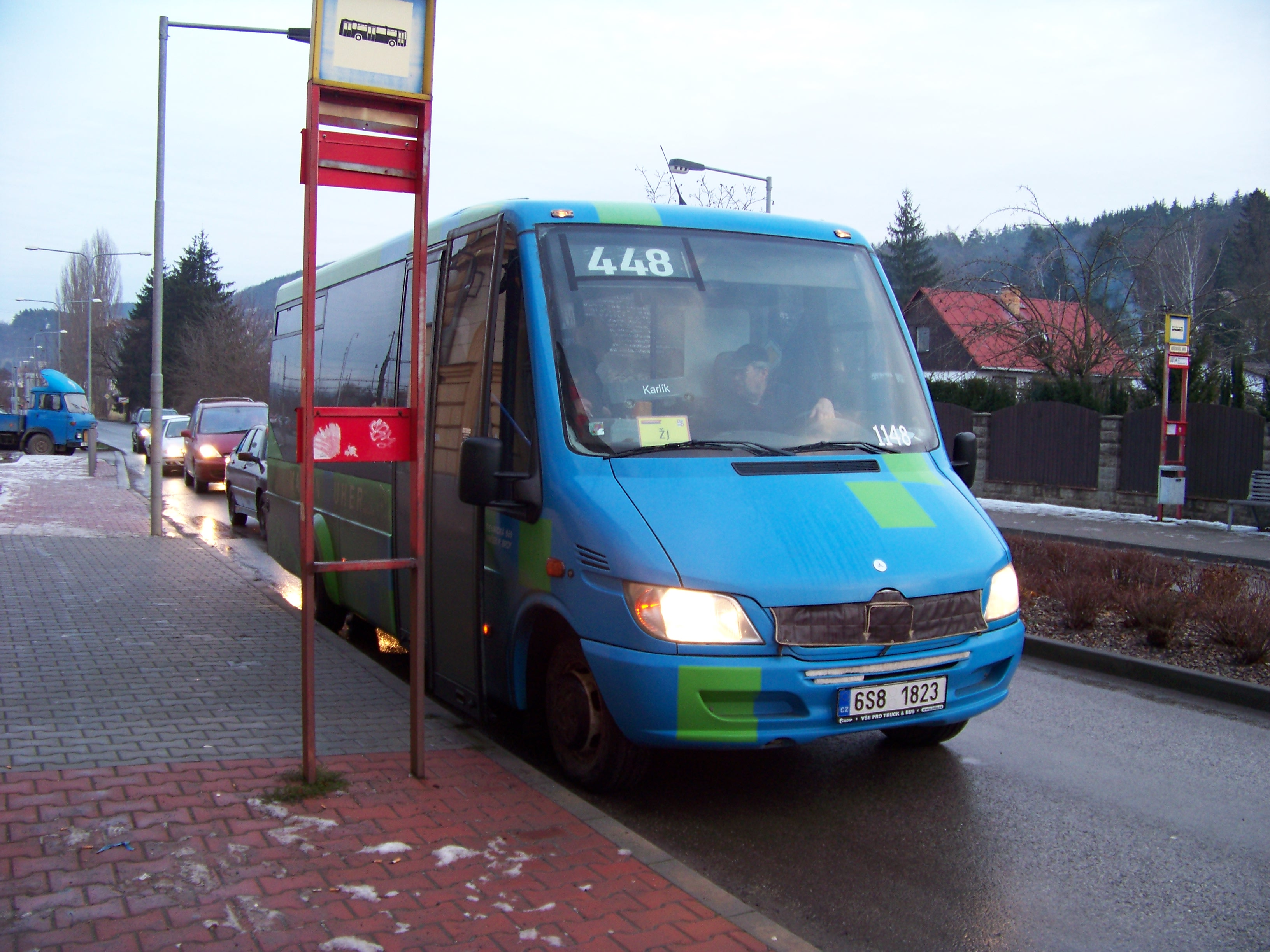 Dobřichovice-Brunšov, Prague-West District, Central Bohemian Region, the Czech Republic. Tyršova Street, a minibus. - Google Maps - Google Earth